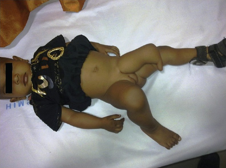 Patient's photograph shows left lower limb polymelia.